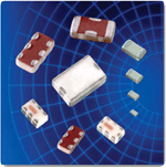 Small, highly stable and integrated RF ceramic components manufactured with a proprietary LTCC (low temperature co-fired ceramic) process and materials. These components operate and thrive over several RF bands from 300MHz to 14GHz covering Cellular, DECT, WLAN, WiMax, all ISM, Bluetooth, 802.11 (a,b and g) and GPS applications.